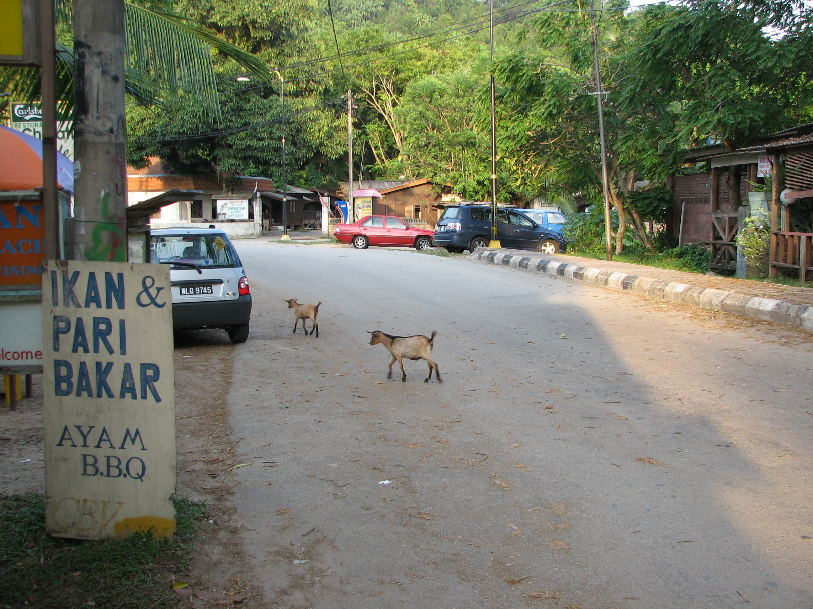 Main road in Cherating. Image captured by Lonnie Maddox.